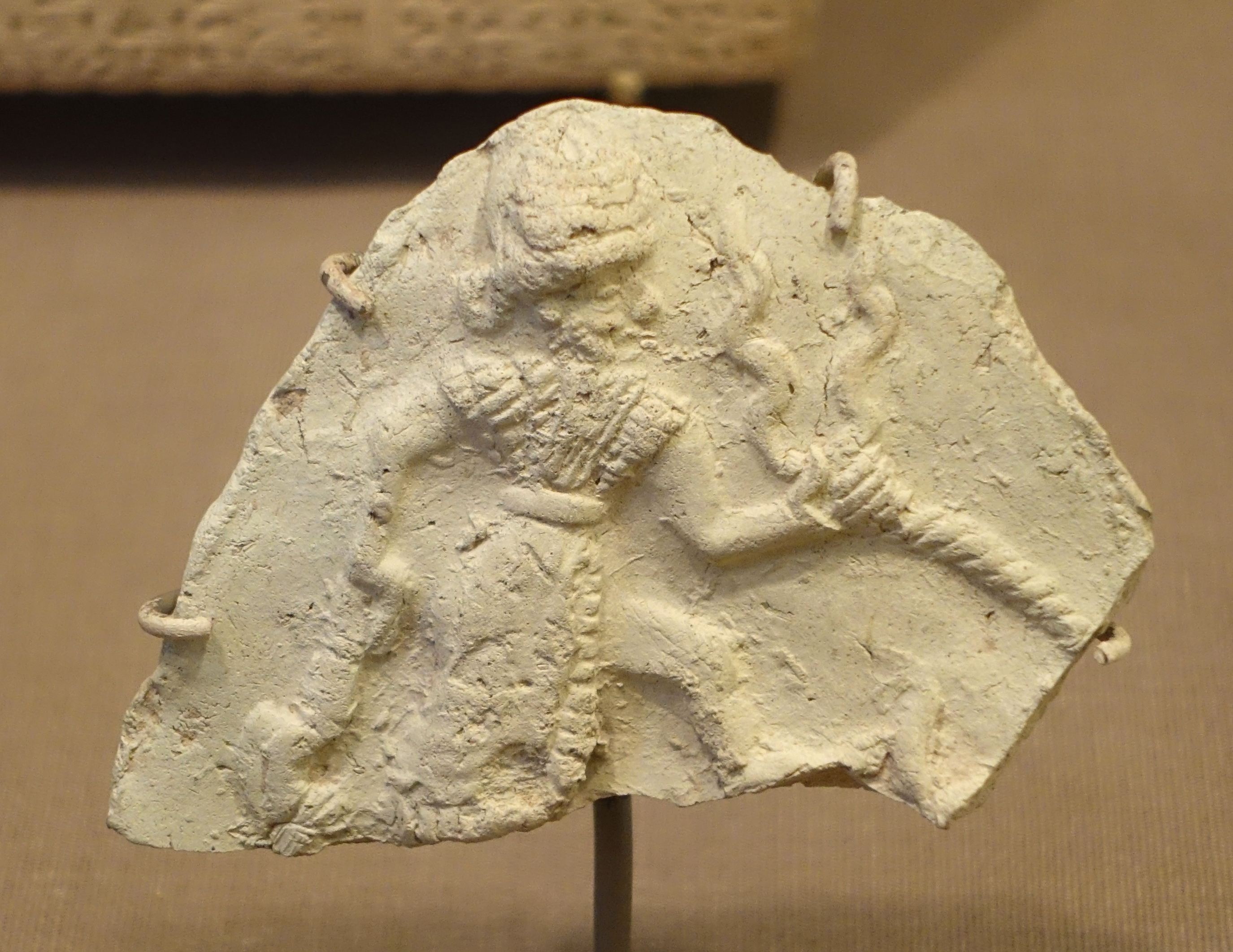 Exhibit in the Oriental Institute Museum, University of Chicago, Chicago, Illinois, USA. This work is old enough so that it is in the public domain.